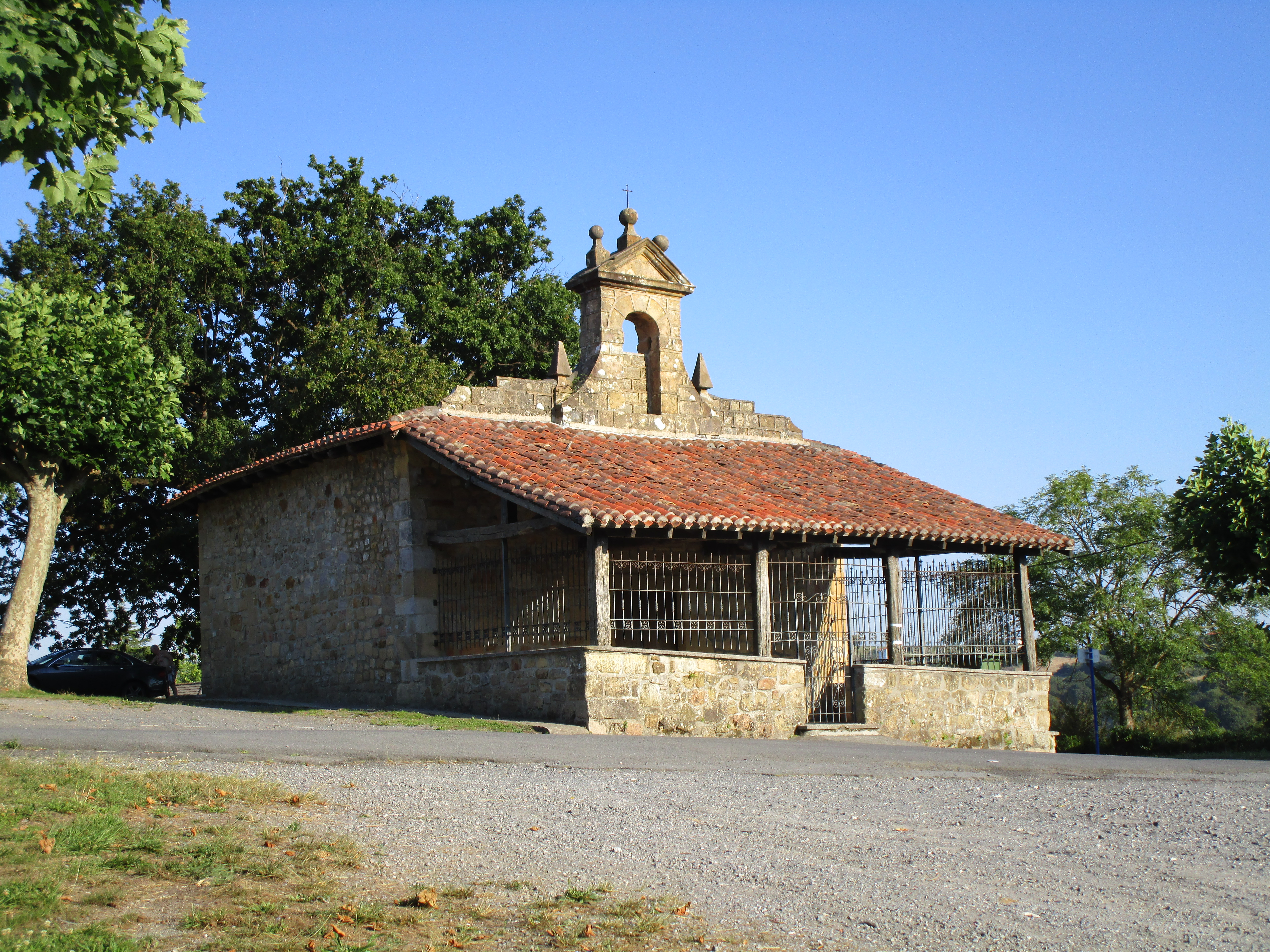 Saint Anthony's 'Hermitage' (Chapel) in Erandio, Biscay, Basque Country, Spain. August 2016.